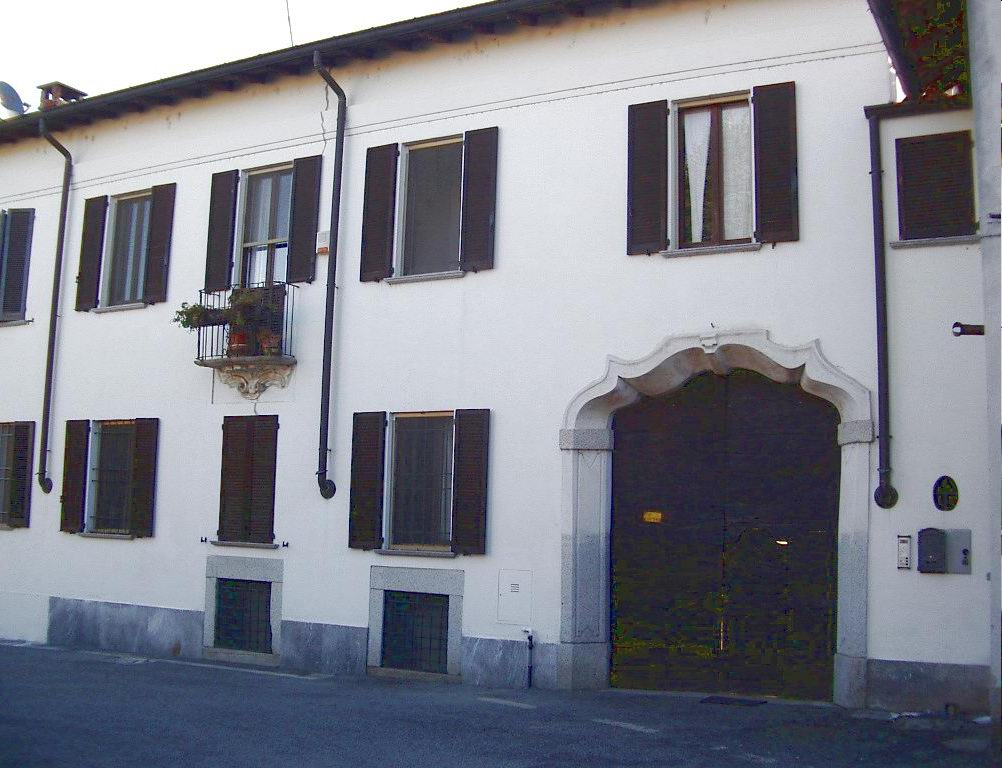 the ancient monastery of the Benedictine monks